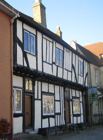 Dean Incent's House on Berkhamsted High Street. Home of John Incent (1480 - 1545), Dean of St Paul's Cathedral and founder of Berkhamsted School in 1541.